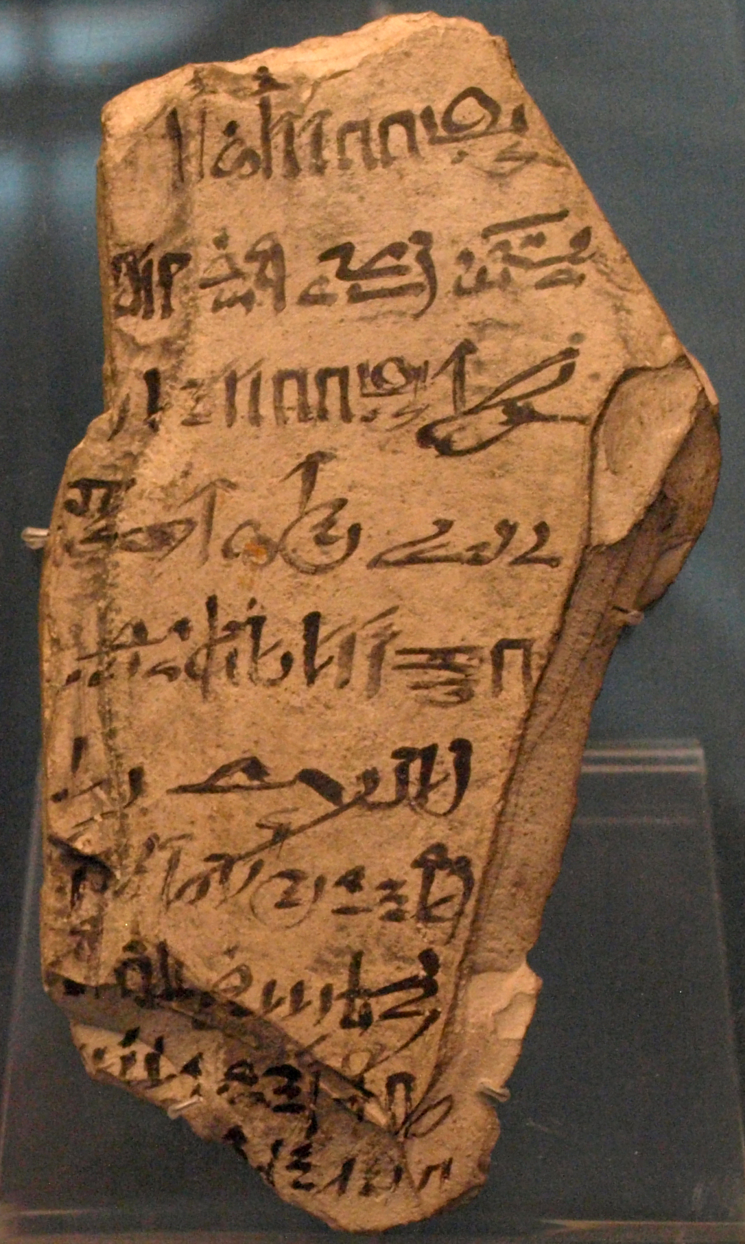 A hieratic ostracon mentioning officials involved with the inspection and clearing of tombs during the time of the 21st dynasty, circa 1070-945 BC. Originally from Thebes. EA 51842.